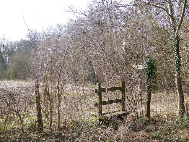 Footpath and stile, Knighton Wood The footpath takes the walker to the A354, Salisbury to Blandford Forum road.